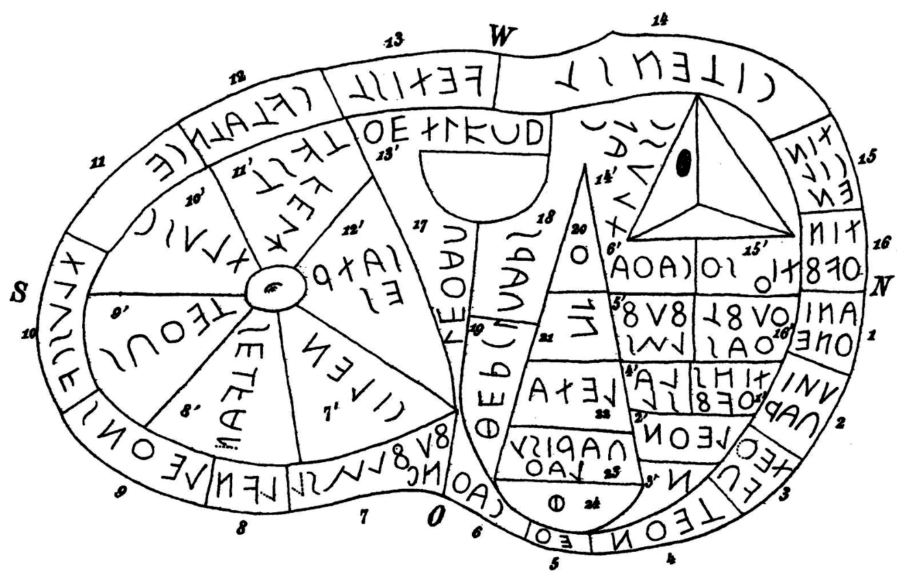 Diagram of the inscriptions of the bronze liver of Piacenza 1. ani/θne 17. leθam 1'. tins/θvf 2. uni/mae 18. mar 2'. leθn 3. tec/vm 19. herc 3'. nc 4. leθn 20. θ 4'. lasl 5. eθ 21. n 5'. fuflus 6. caθ 22. leta 6'. caθa 7. fuflu/ns 23. marisl/laθ 7'. cilen 8. selva 24. tu?θ 8'. selva 9. leθns 9'. leθms 10. tluscv 10'. tlusc 11. ce? 11'. lusl/vel 12. cvl/alp 12'. sair/es 13. vetisl 13'. θetlumθ 14. cilensl 14'. tlusc/m/ar15. tin/cil/en 15'. tinsθ/neθ 16. tin/θvf 16'. θuflθas